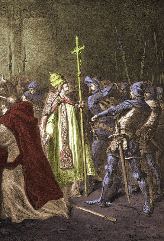 Sciarra Colonna (1270-1329) Slapping Pope Boniface VIII in the face.